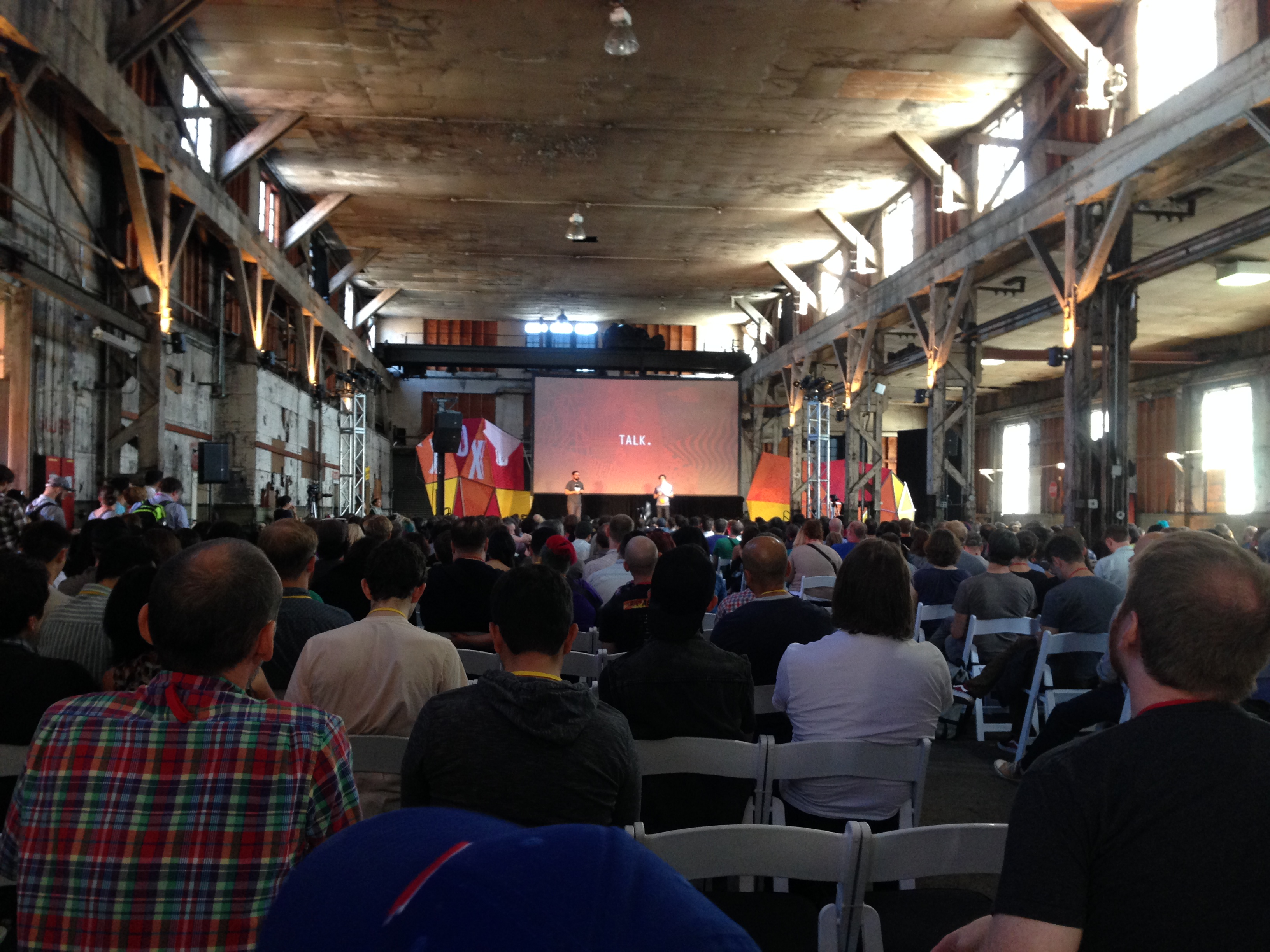 Inside the conference venue at XOXO Festival 2014 in Portland, Oregon.